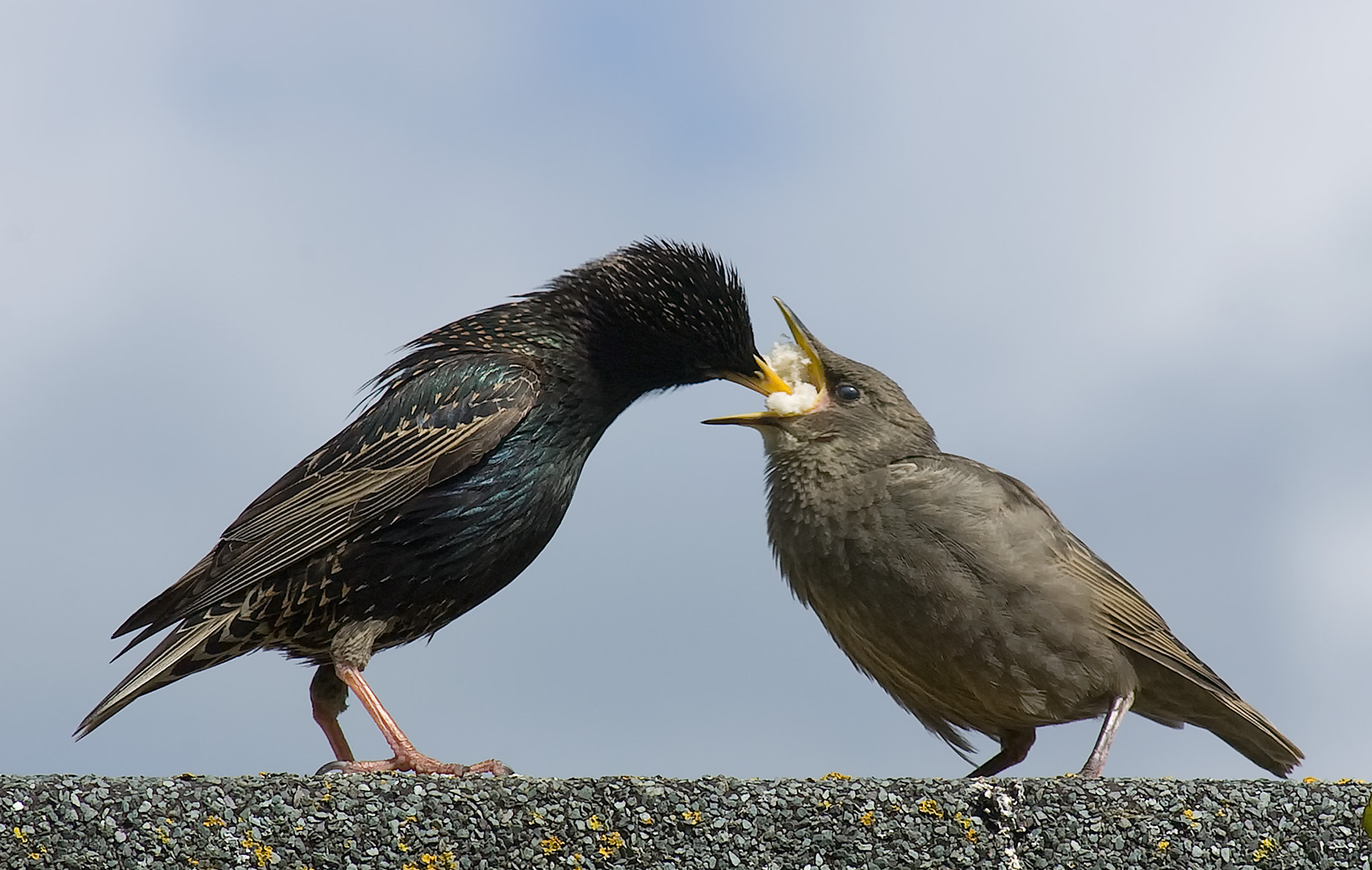 Starling feeding offspring